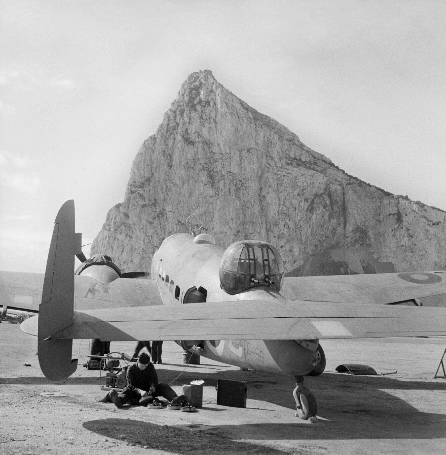 A Lockheed Hudson Mk III of No. 233 Squadron at North Front airfield at Gibraltar, March 1942. Hudson III T9459, part of No 233 Squadron's detachment at North Front airfield, with the famous Rock of Gibraltar providing a backdrop, March 1942.